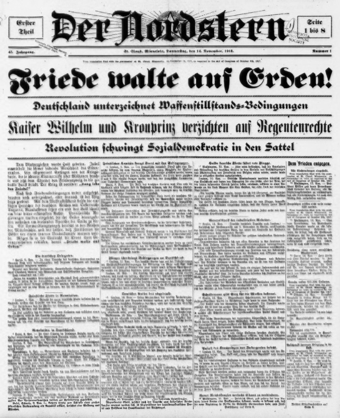 Der Nordstern was a German-language newspaper published in St. Cloud, Minnesota from 1874-1831. This is the front page covering the armistice of World War I. The main title is "Peace on Earth"